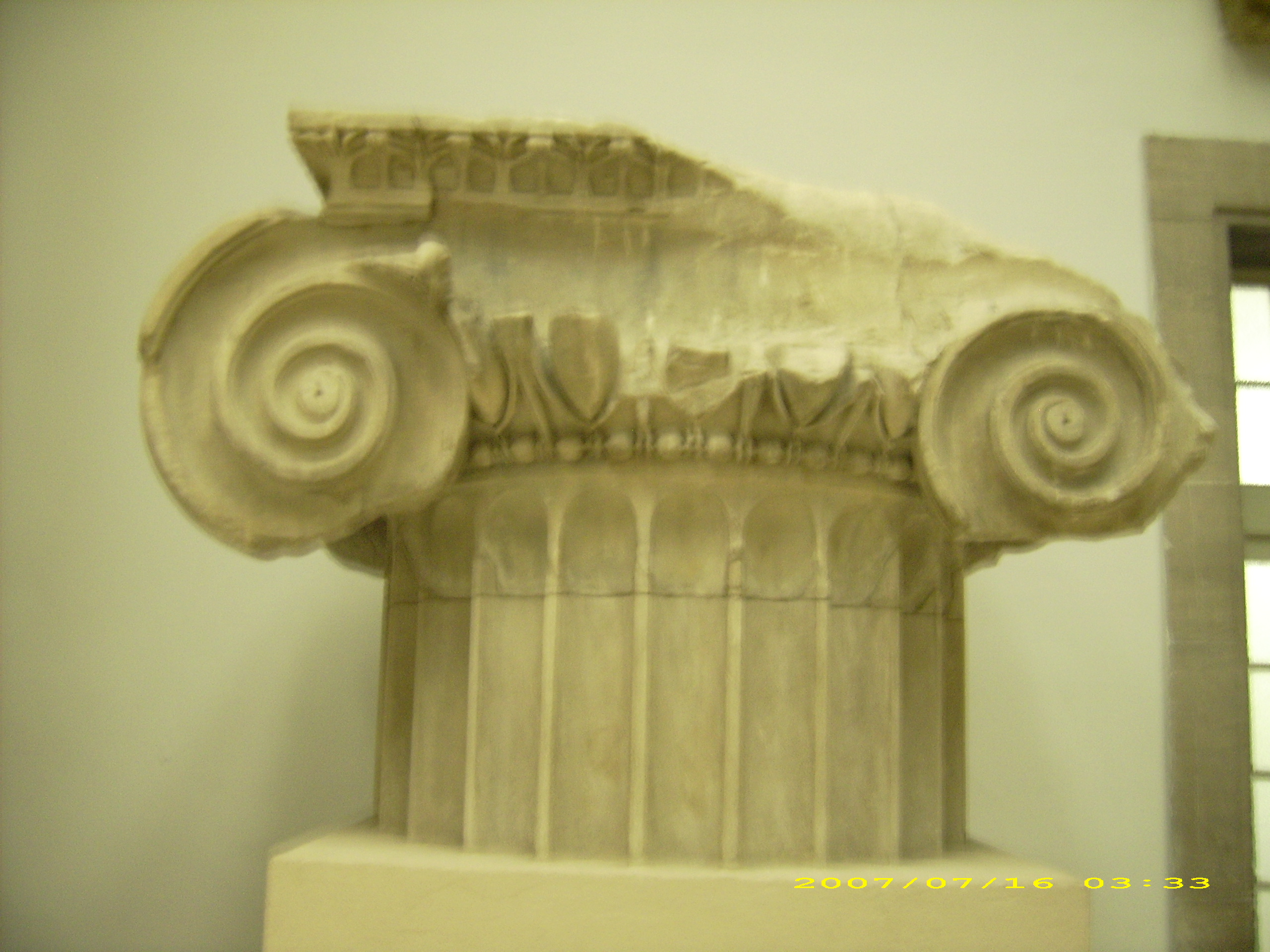 Capital from the Artemision of Magnesia on the Maeander (Berlin, Pergamonmuseum).